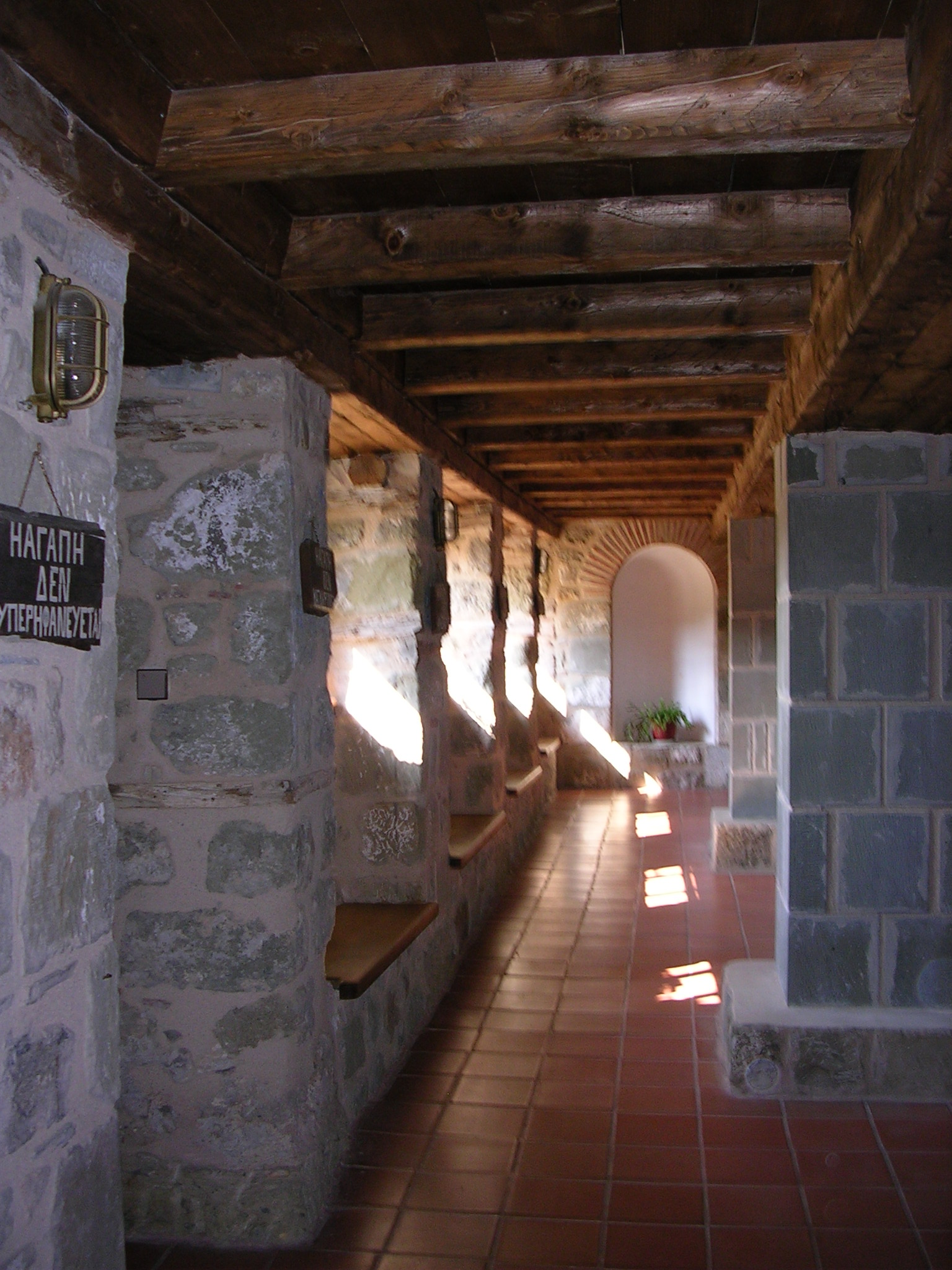 Inside of Monastery of the Holy Trinity